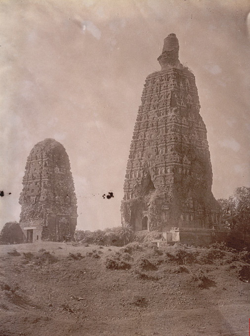 Historical image of Bodh gaya temple